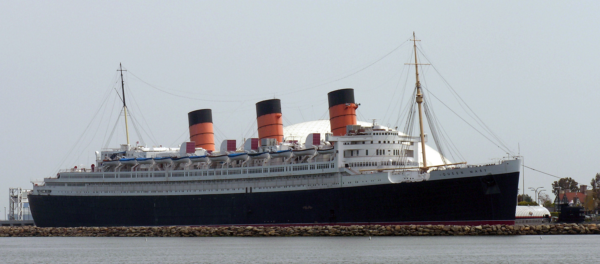 Queen Mary, Long Beach, California / 2007